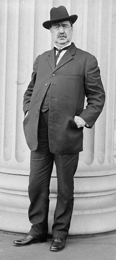 American botanist Frederick Vernon Coville (1867-1937)